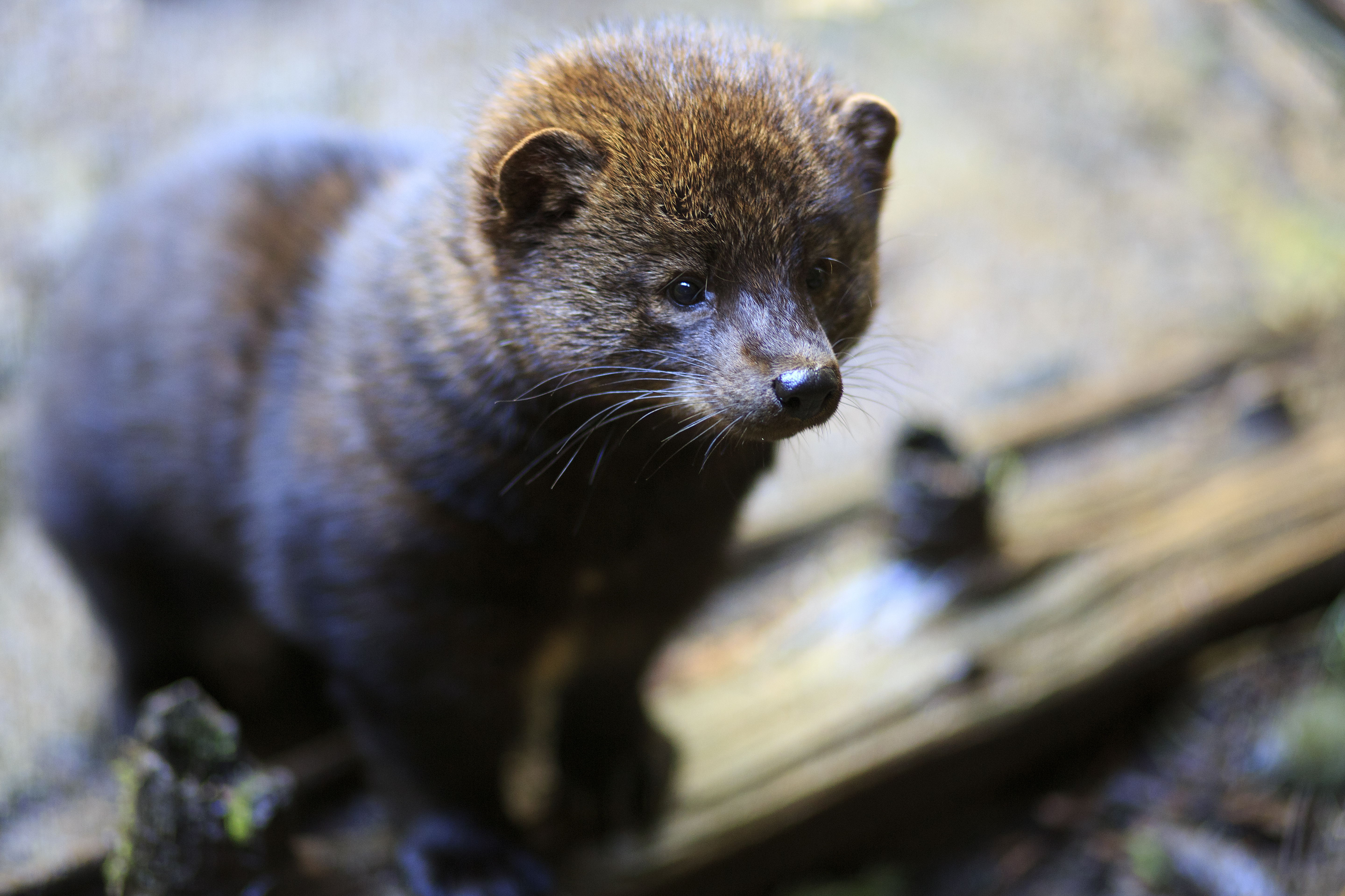 Fisher Keywords: animal